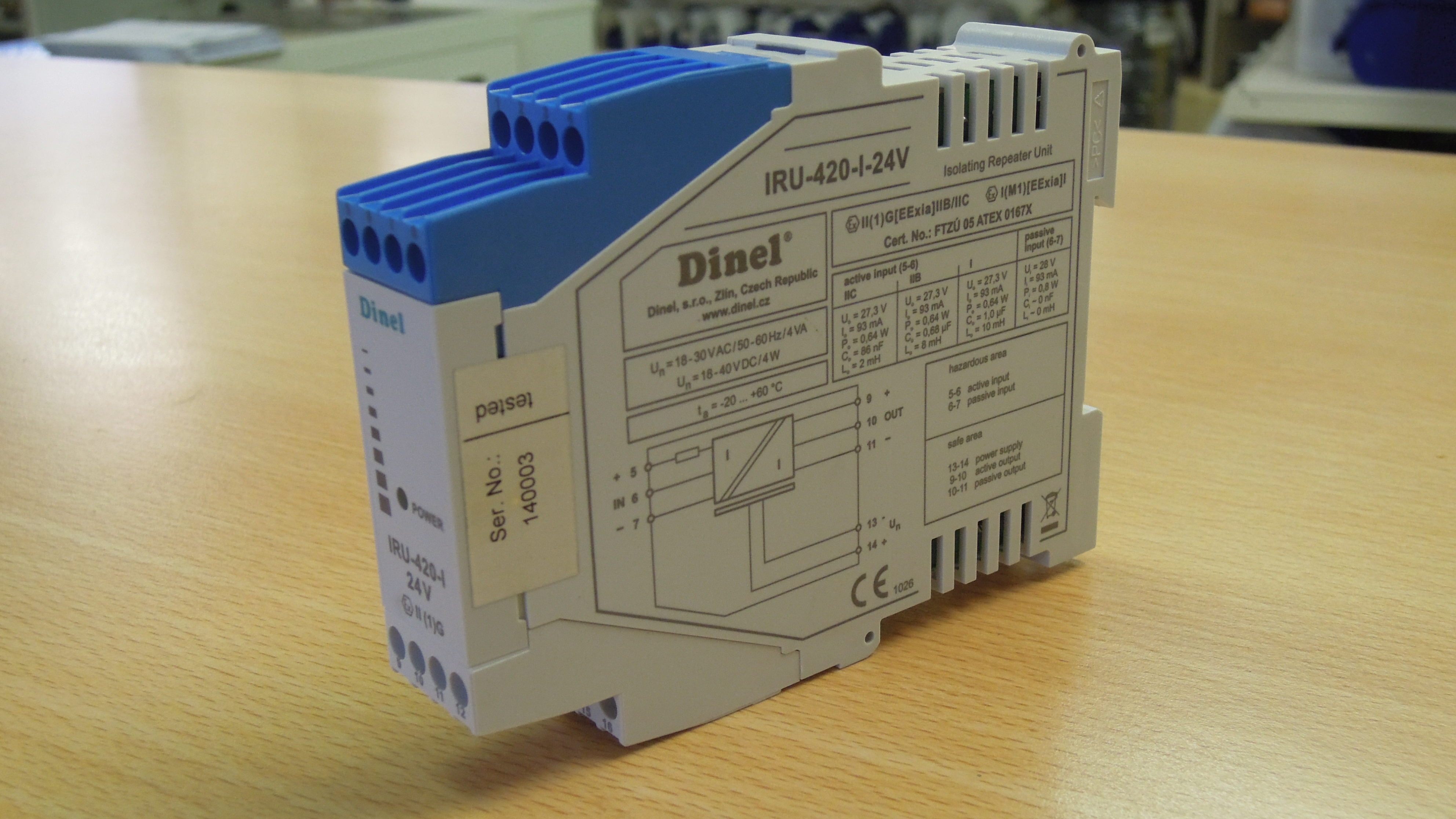 Zener barrier for separation intrinsic safety circuits